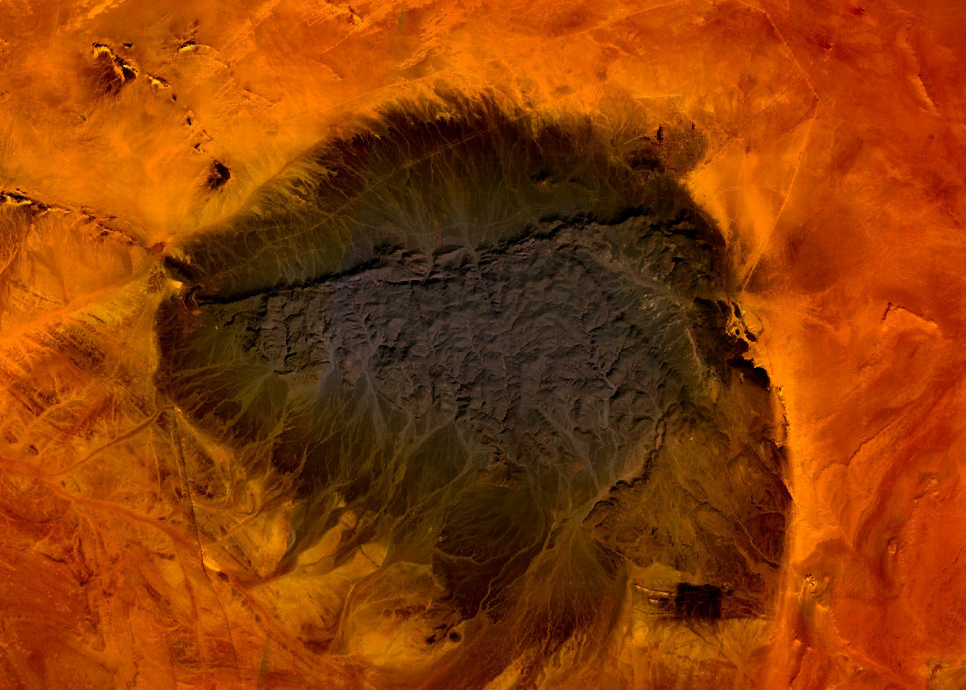 Mt. Kediet Ijill, Mauritania - seen from space